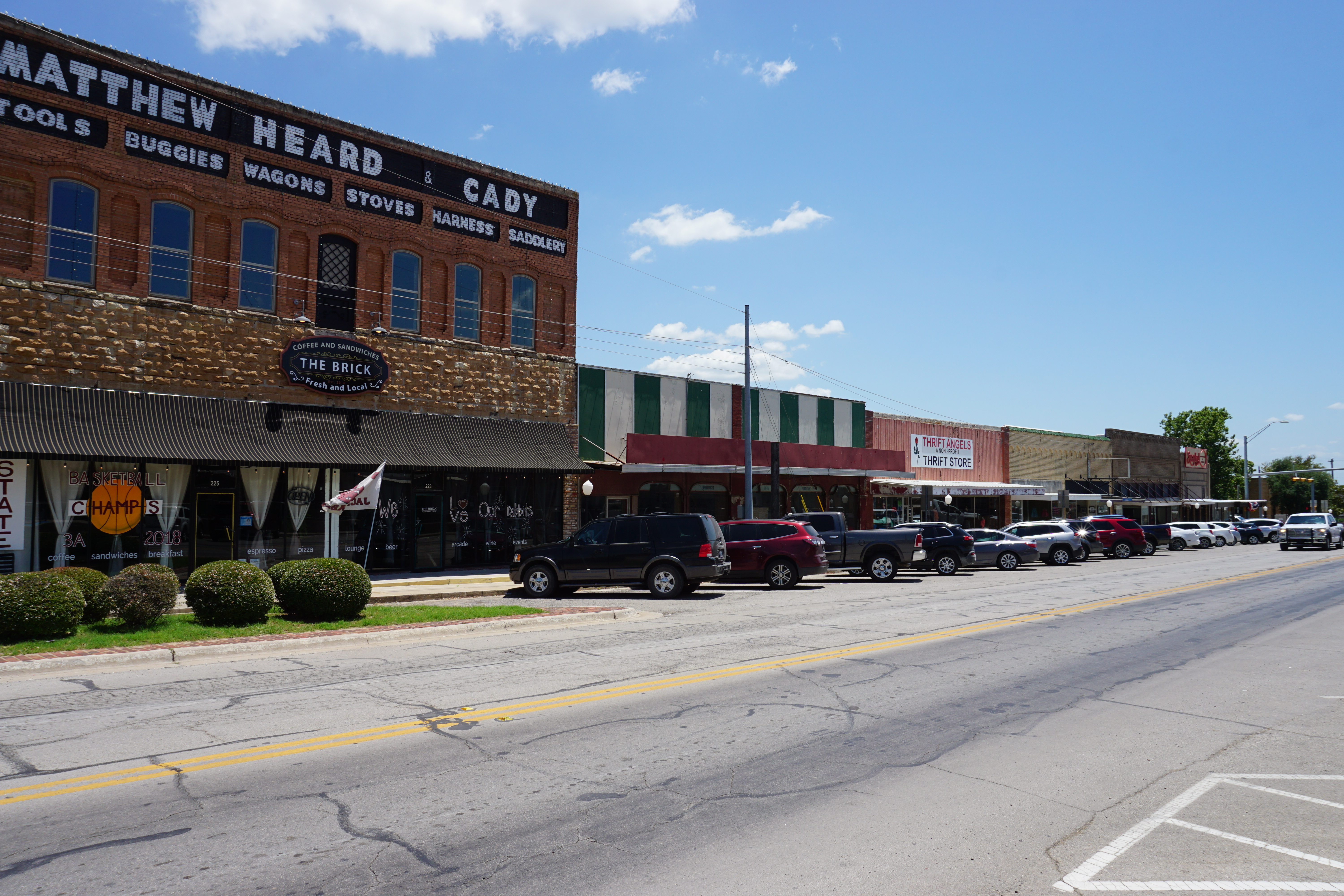 North Mason Street in Bowie, Texas (United States).